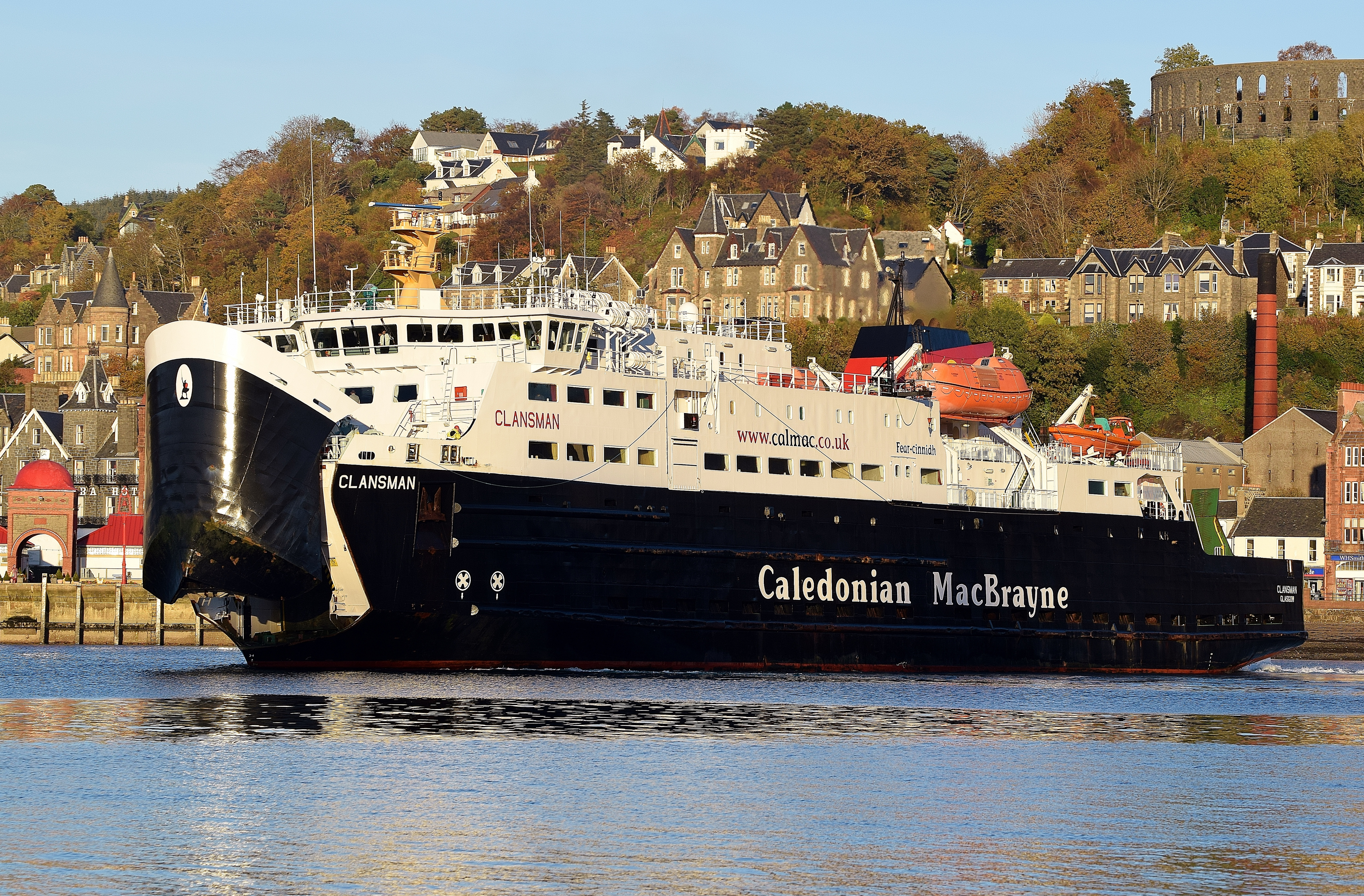 Departing Oban for Barra